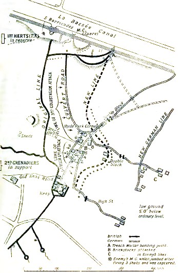 Map showing the site of the Affairs of Cuinchy, near La Bassée, January-February 1915